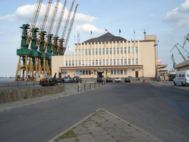 The Sea Terminal in Gdynia